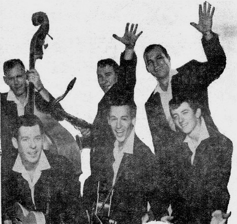 Photo of The Champs from a Challenge Records ad in 1958. Will need no notice ad license at Commons. Challenge Records did not mark their ad with any copyright notices. Copyright for Billboard would pertain to the editorial content only--not ads placed in the magazine. US Copyright Office page 3-magazines are collective works (PDF) "A notice for the collective work will not serve as the notice for advertisements inserted on behalf of persons other than the copyright owner of the collective work. These advertisements should each bear a separate notice in the name of the copyright owner of the advertisement."